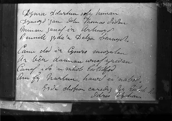 1 negative : glass, dry plate, b&w ; 8.5 x 11 cm.